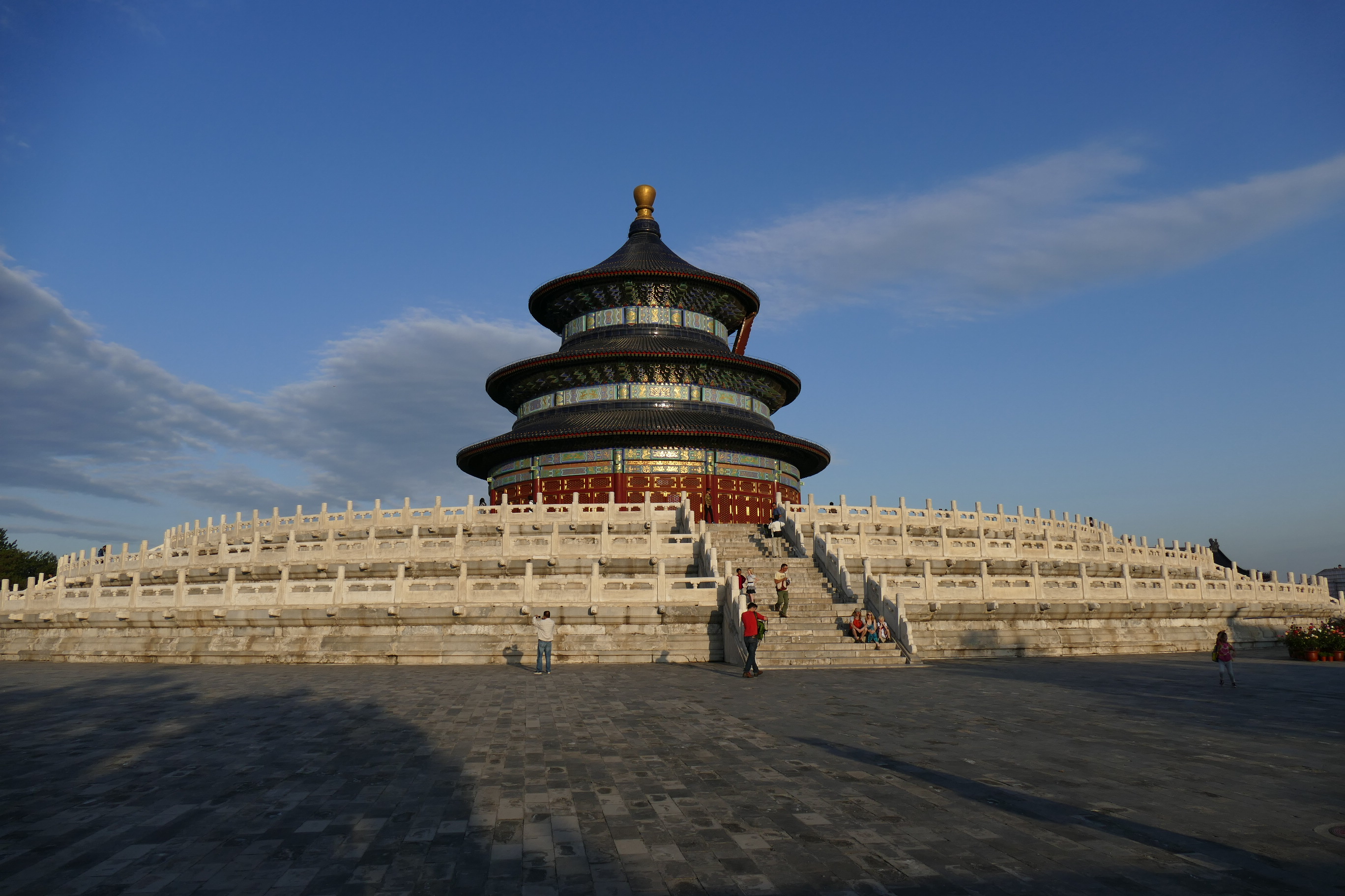 Temple of Heaven - Beijing, 29.9.2014